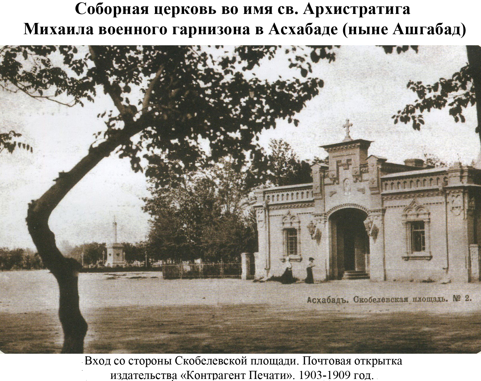 Collegiate Church in honor of St. Archangel Michael military garrison in Ashkhabad (now Ashkhabad). Entrance from the side Skobelevskaya Square. Postal card publishers' Counterparty Seal. "1903-1909 year.